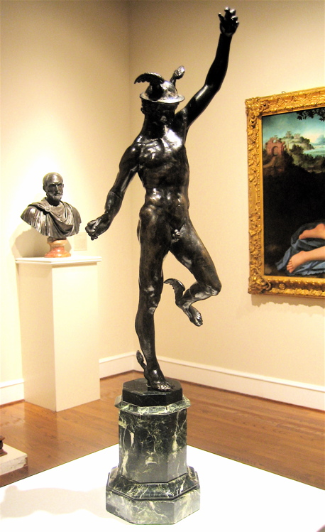 Willem Danielsz. van Tetrode (known as Guglielmo Fiammingo) (Holland. Delft, circa 1525 - 1580) Mercury, 1549-1550 Sculpture, Bronze on verde antico base, 19 3/4 x 8 x 6 1/2 in. (50.17 x 20.32 x 16.51 cm) Gift of the 1996 Collectors Committee (AC1996.28.1.1-.2) Wikipedia Loves Art at the Los Angeles County Museum of Art This photo of item # AC1996.28.1.1 at the Los Angeles County Museum of Art was contributed under the team name "artifacts" as part of the Wikipedia Loves Art project in February 2009. Los Angeles County Museum of Art The original photograph on Flickr was taken by Beesnest McClain—please add a comment to the original Flickr page whenever a use has been made on Wikipedia or another project. Project galleries on Flickr: this institution, this team